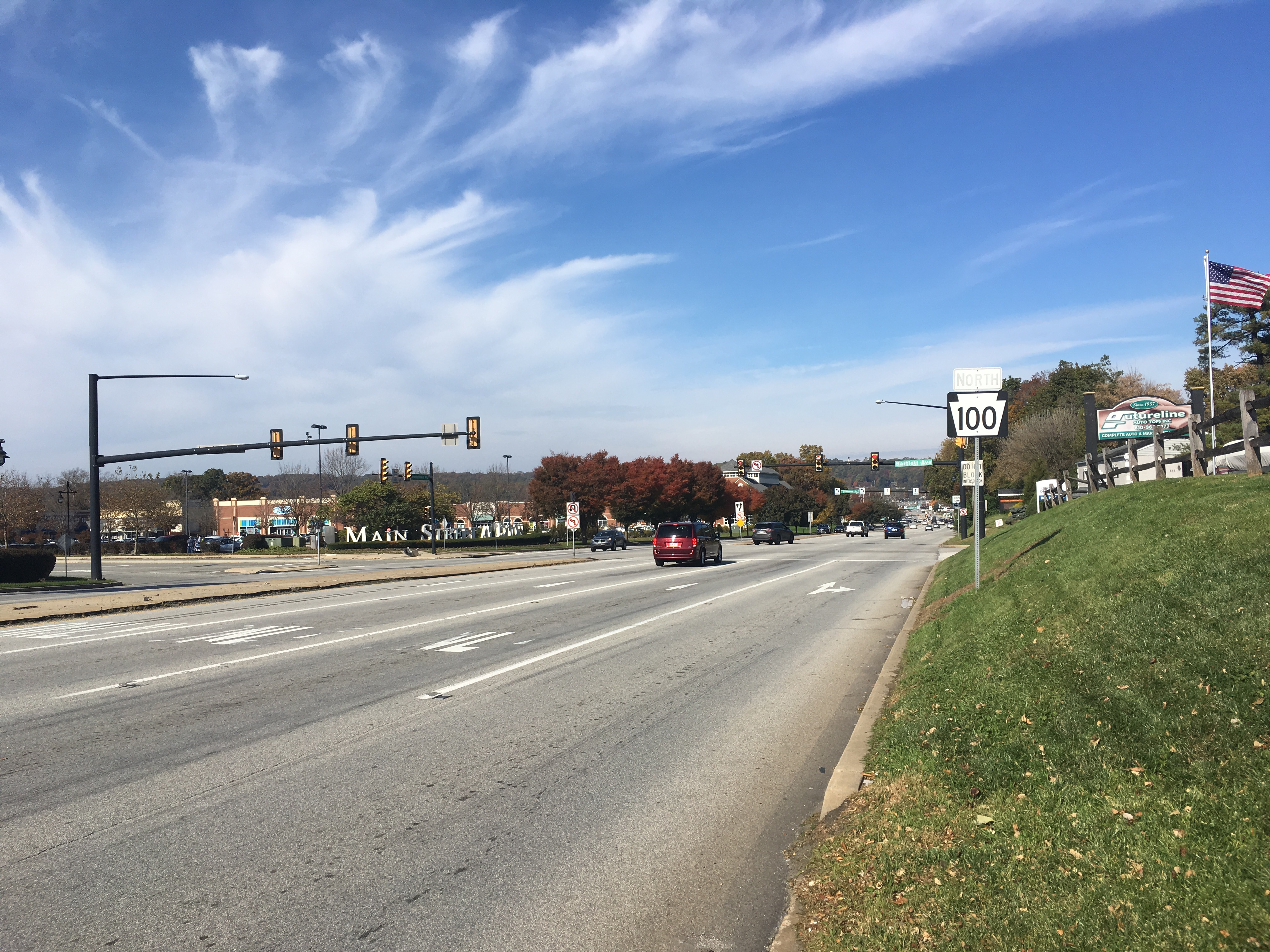 Northbound Pennsylvania Route 100 (Pottstown Pike) past the interchange with U.S. Route 30 in Exton, Pennsylvania